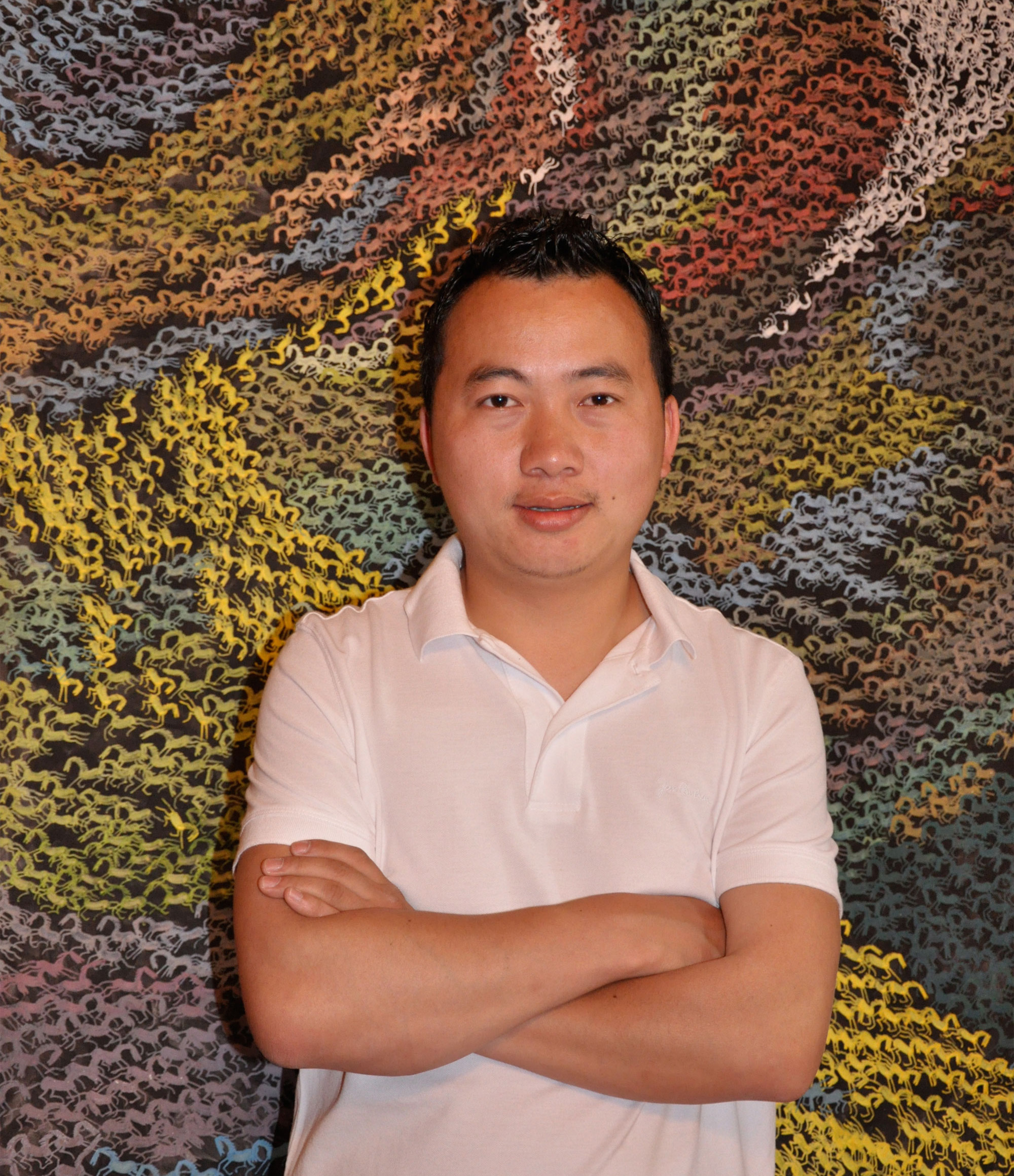 Artist: Otgonbayar Ershuu in Konstanz, Germany 2009